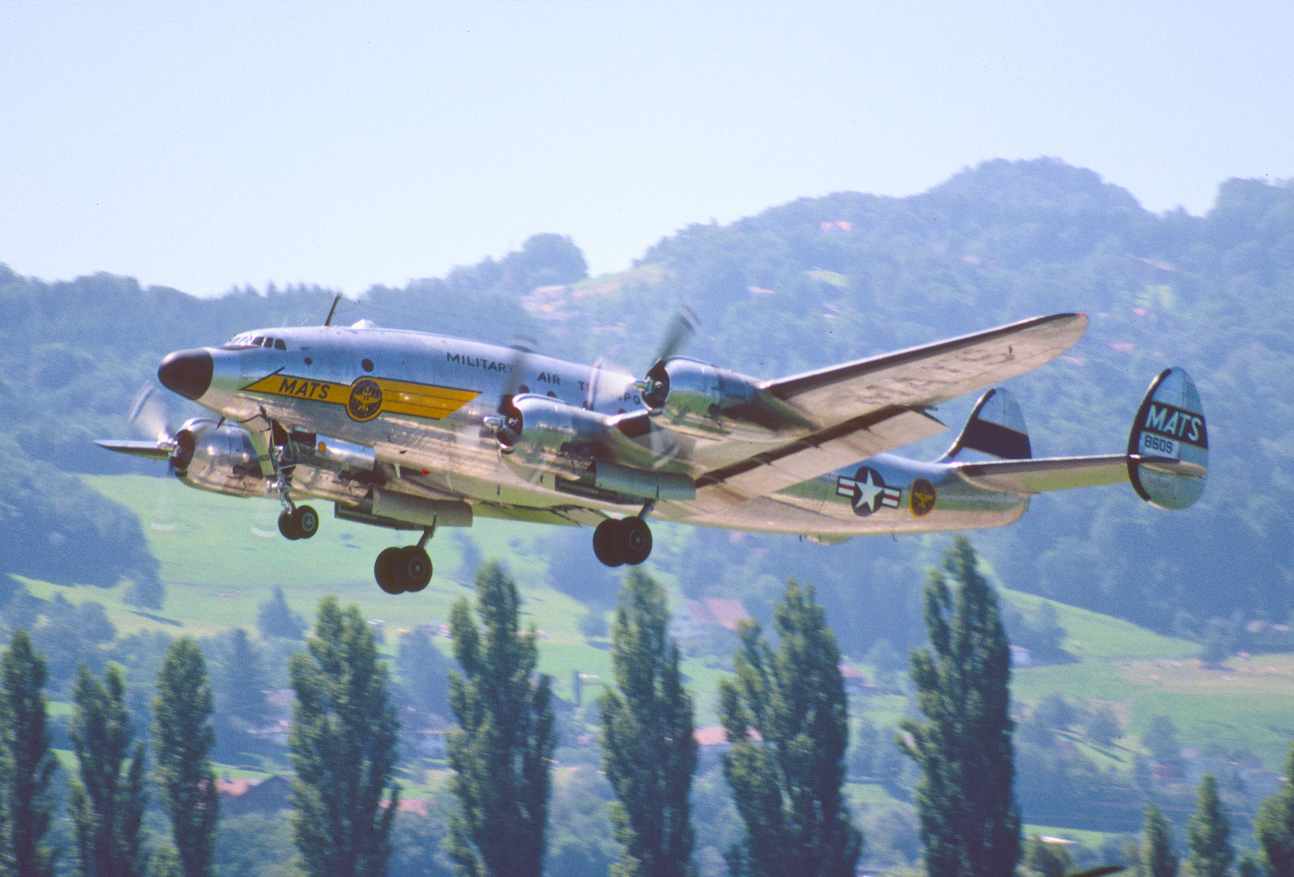 35ak - The Constellation Group Lockheed L-749 Constellation; N494TW@ACH;08.08.1998